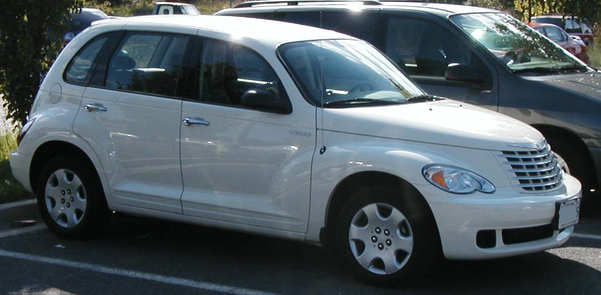 2006-2007 Chrysler PT Cruiser photographed in USA.